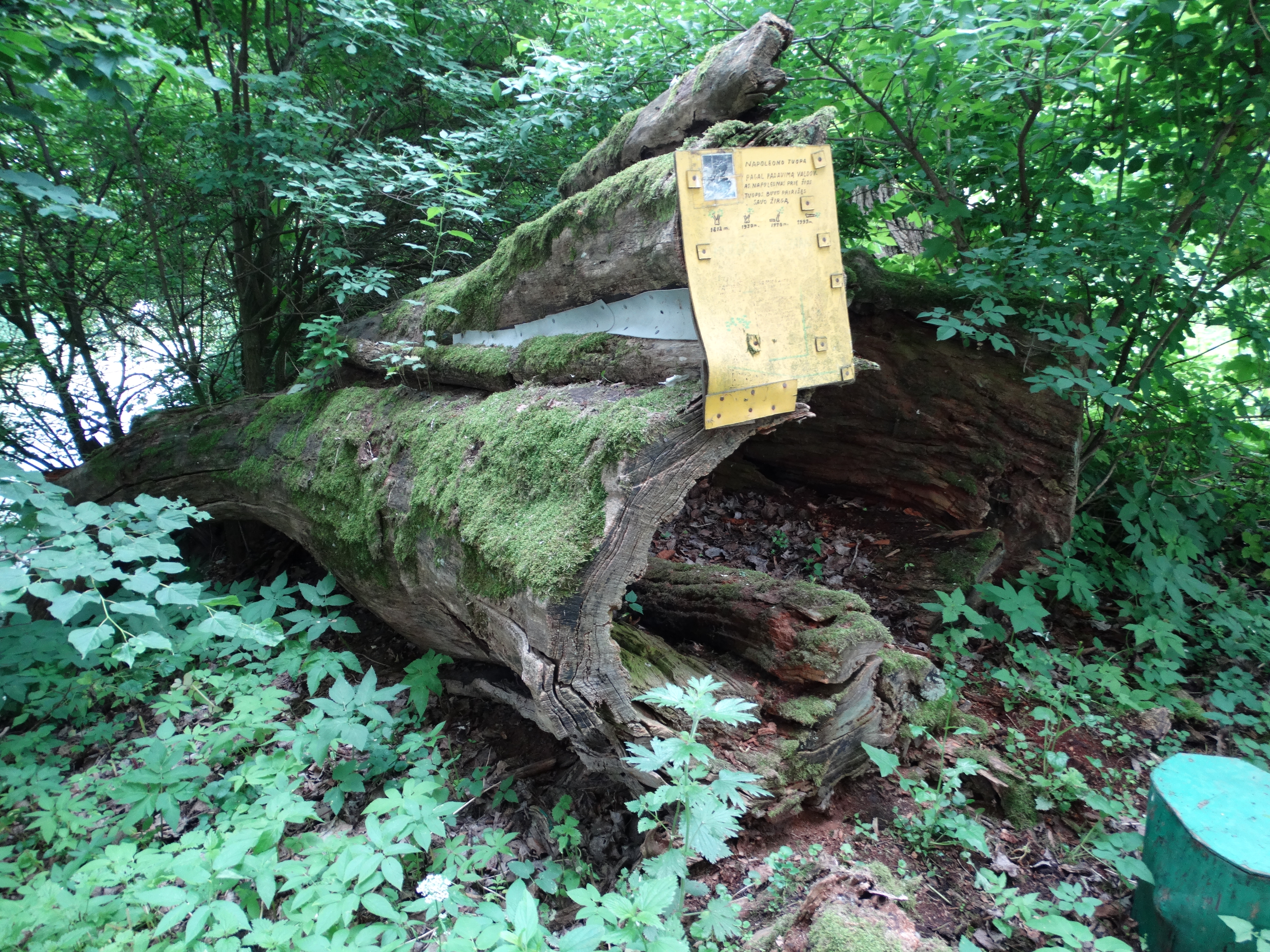 Old poplar tree trunk, Vainiai park, Jonava District, Lithuania